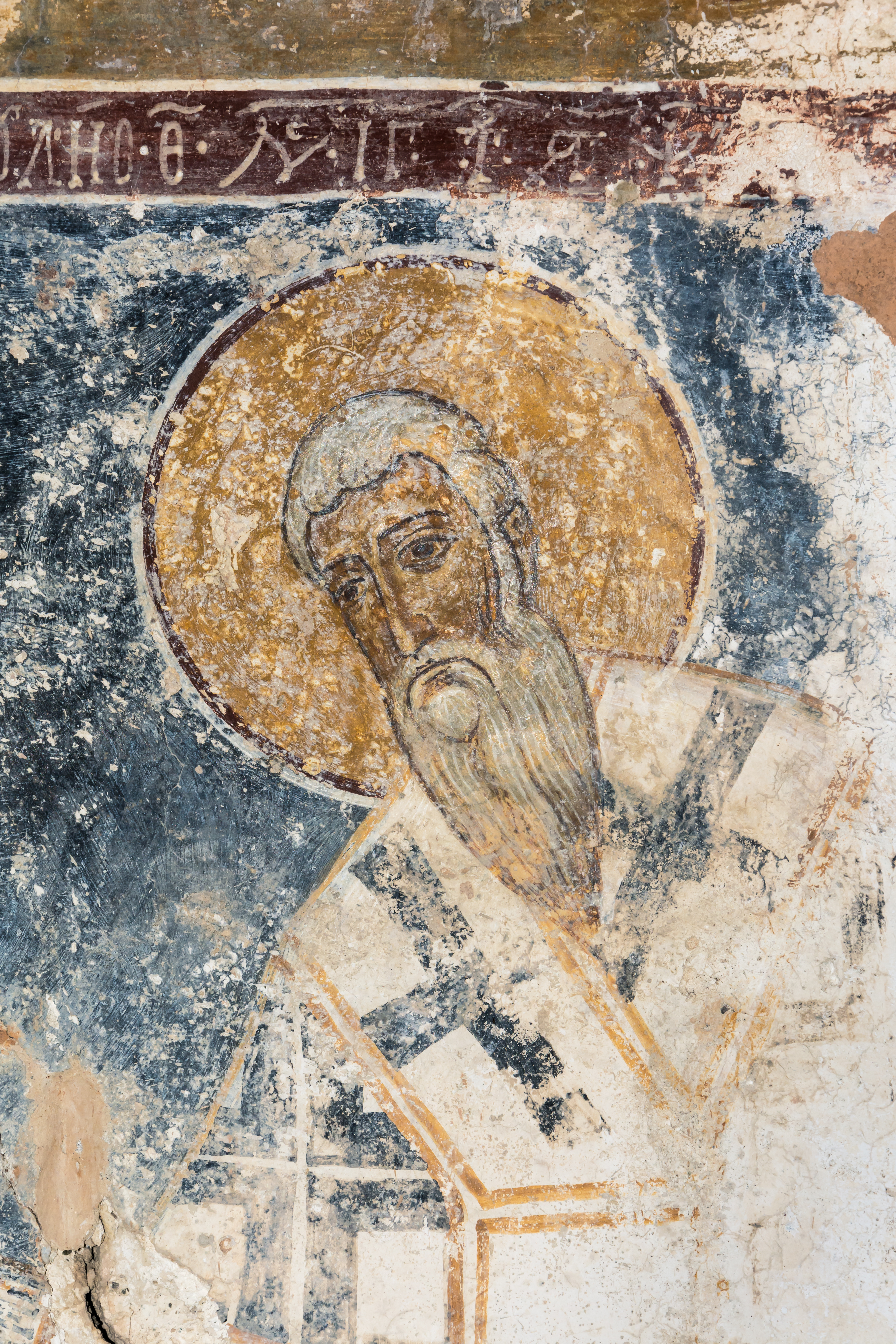 Byzantine fresco of Saint Andrew of Crete in the church of Agia Anna (Αγία Άννα), Amari Valley, Crete. The frescoes are dated 1225 and the oldest dated frescoes in Crete.